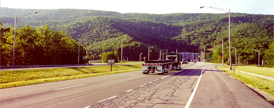 I took this picture on May 30, 2000. This is northbound, near exit 66, which leads to Bluefield (west) or Rocky Gap (east).